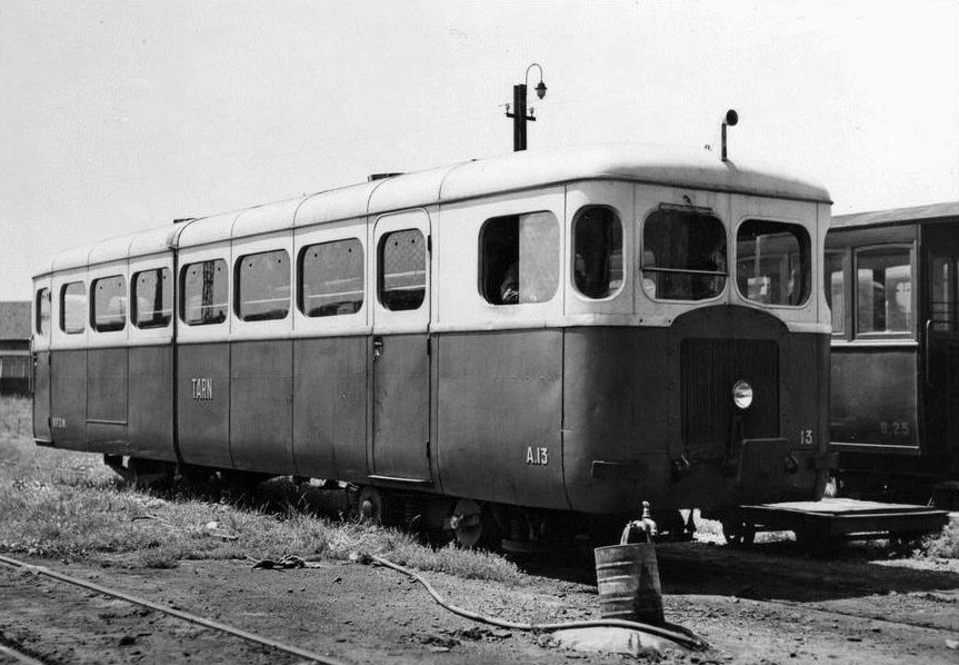 Verney A13 railcar of the CFD du Tarn.